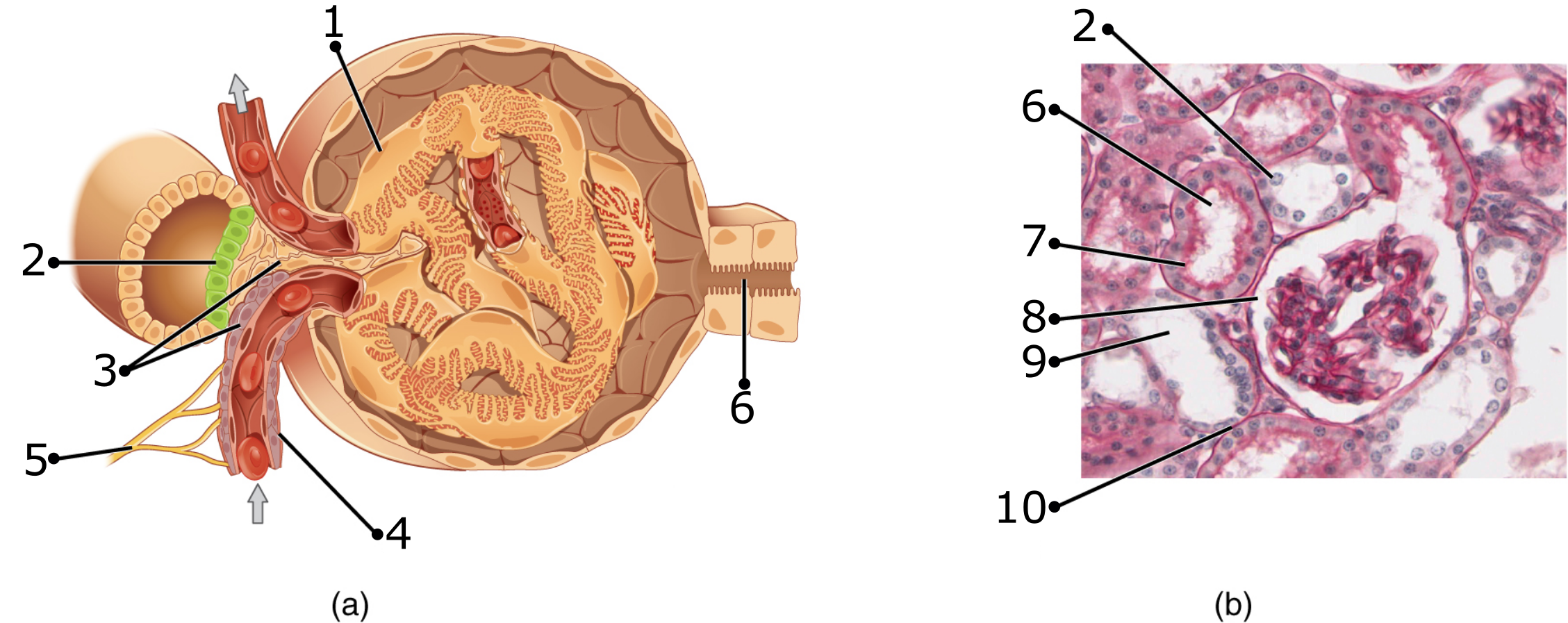 The JGA allows specialized cells to monitor the composition of the fluid in the DCT and adjust the glomerular filtration rate. (b) This micrograph shows the glomerulus and surrounding structures. LM × 1540. (Micrograph provided by the Regents of University of Michigan Medical School © 2012). opis do numeracji: 1. Podocyte 2. Macula densa 3. Juxtaglomerular cells 4. Aferrent arteriola 5. Renal nerve 6. Proximal convoluted tubule 7. Brush border 8. Glomerulus 9. Distal convoluted tubule 10. Basement membrane